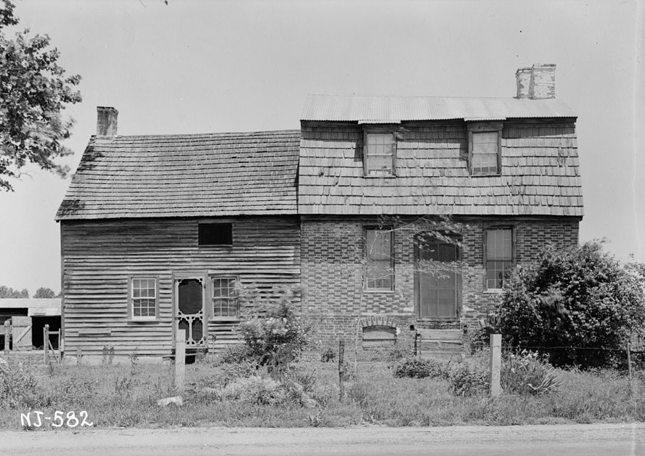 Thomas Maskel House on the NRHP in Cumberland County, New Jersey, west of Greenwich on Bacon Neck Road. Built about 1720. (cropped).